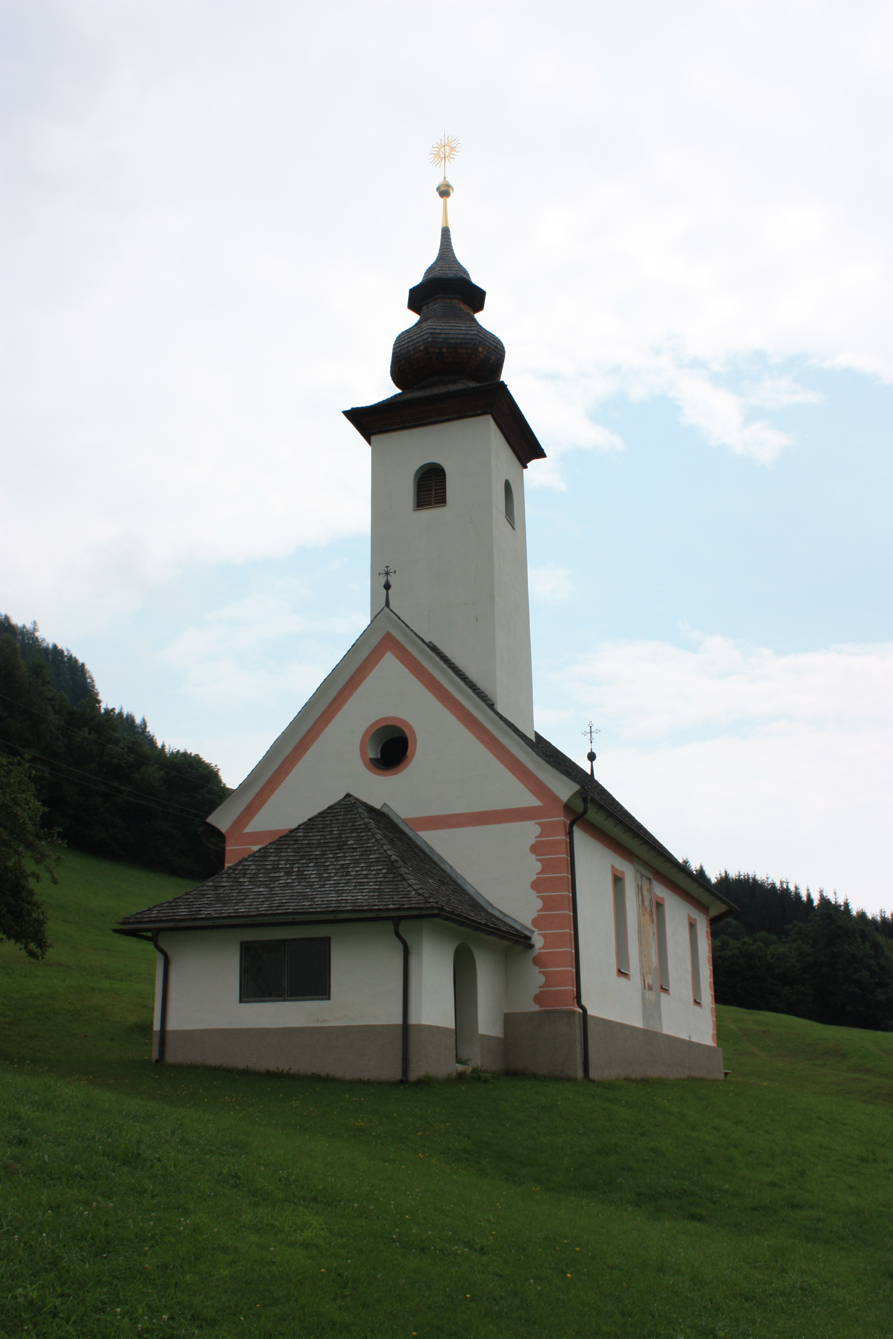 Church in Buchholz Locality:Buchholz Community:Treffen